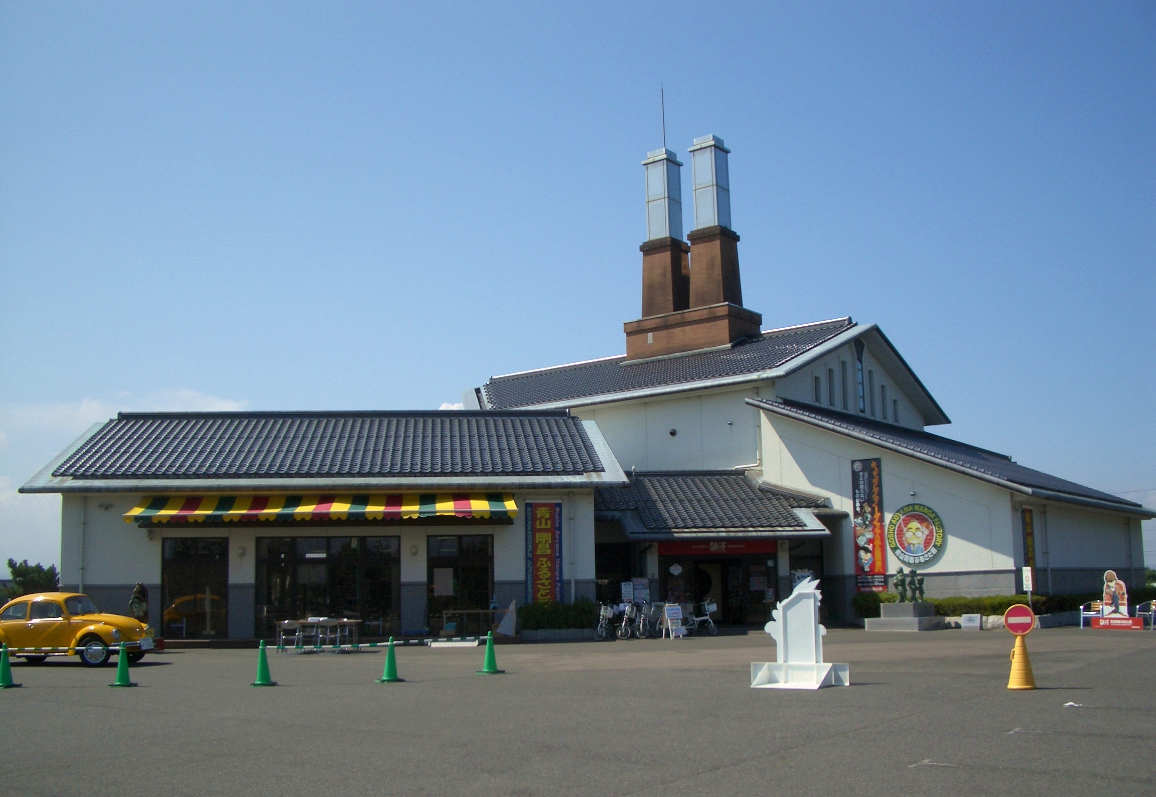 Gosho Aoyama Manga Factory in Hokuei, Tōhaku District, Tottori Prefecture, Japan.